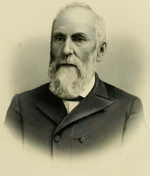 Democrat Nominee John Moore